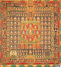 Ryokai Mandala, Jodoji, Onomichi, Hiroshima, Japan